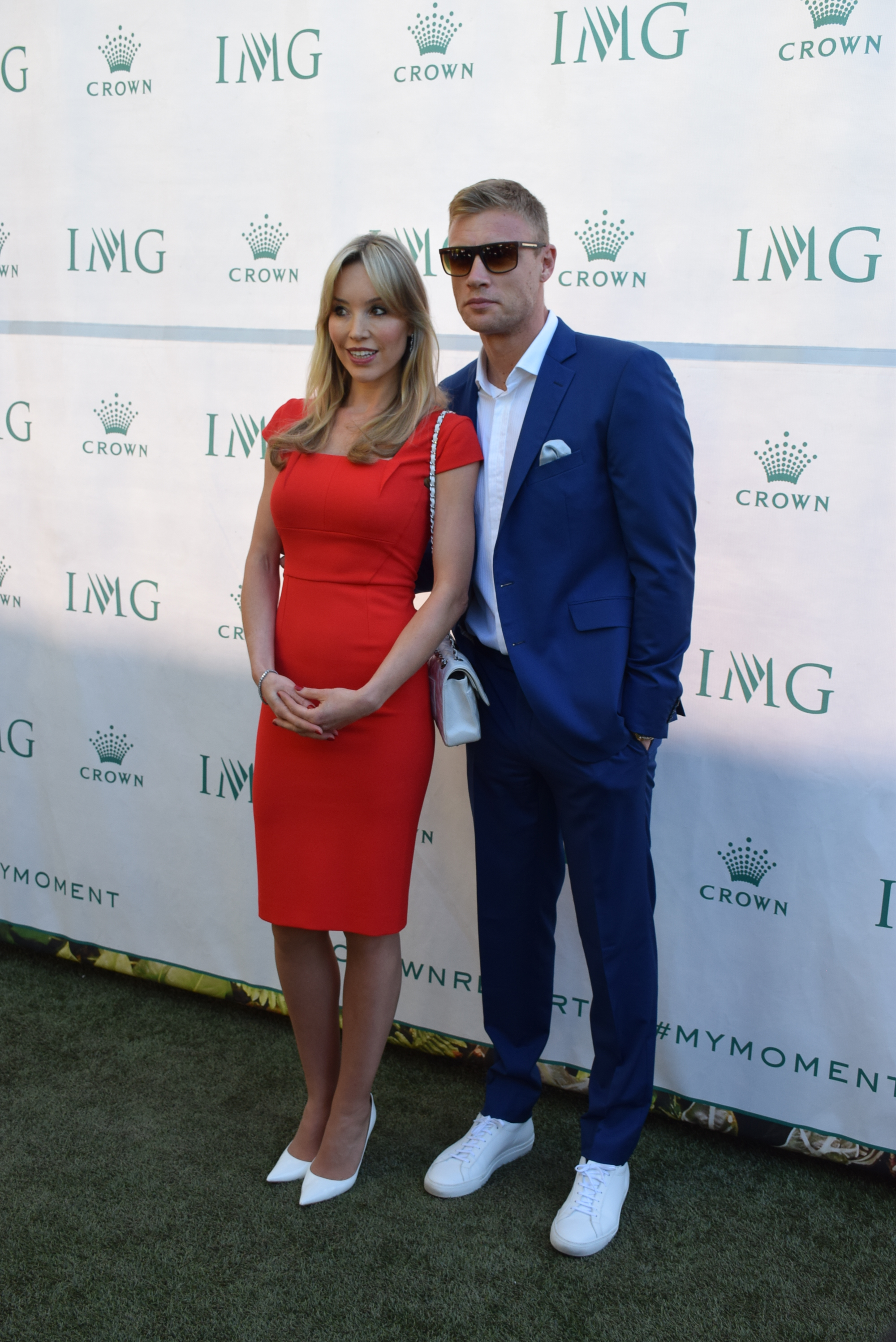 Rachel and cricketer husband Freddie Flintoff